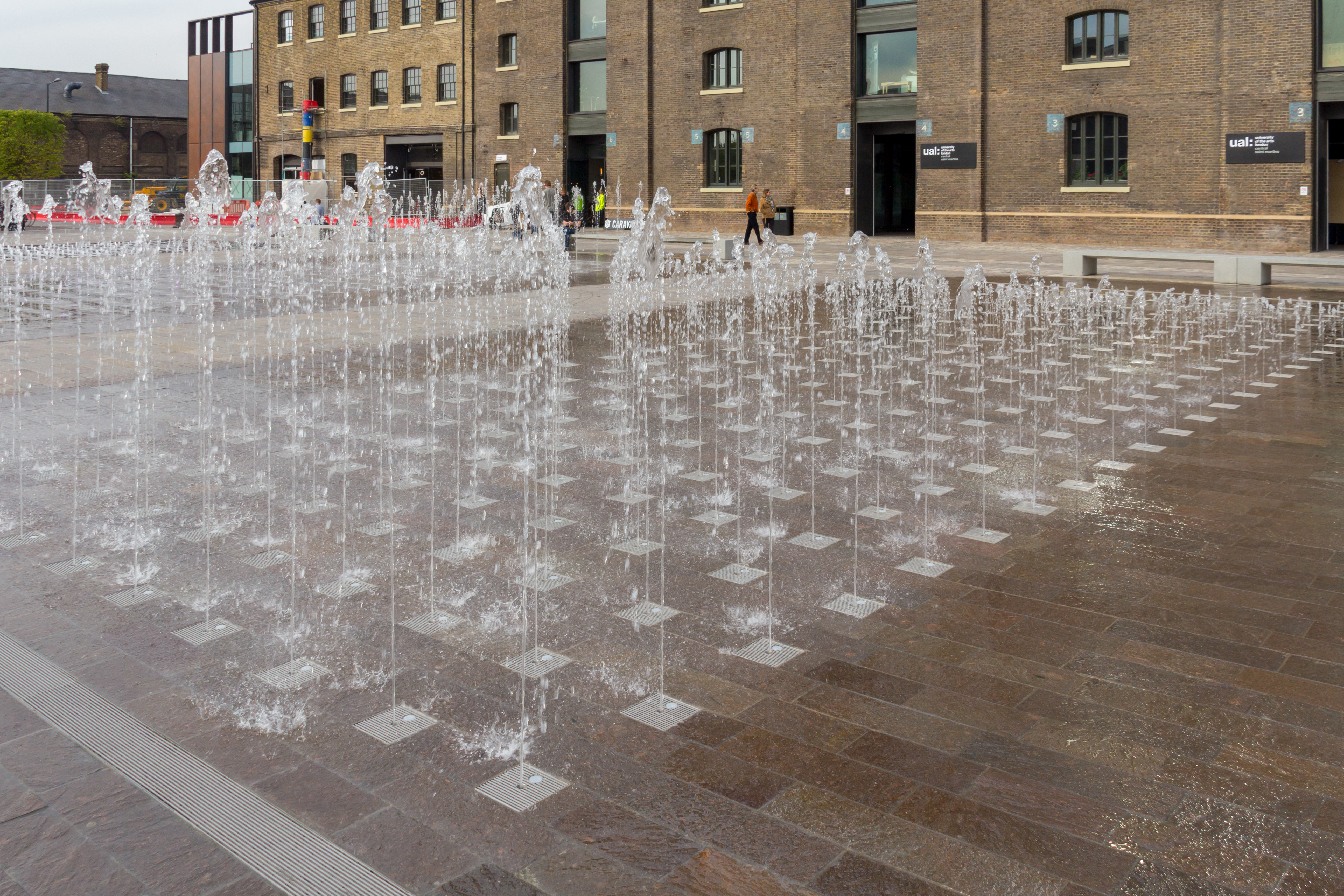 Granary Square fountain, near King's Cross railway station, London, in 2012.